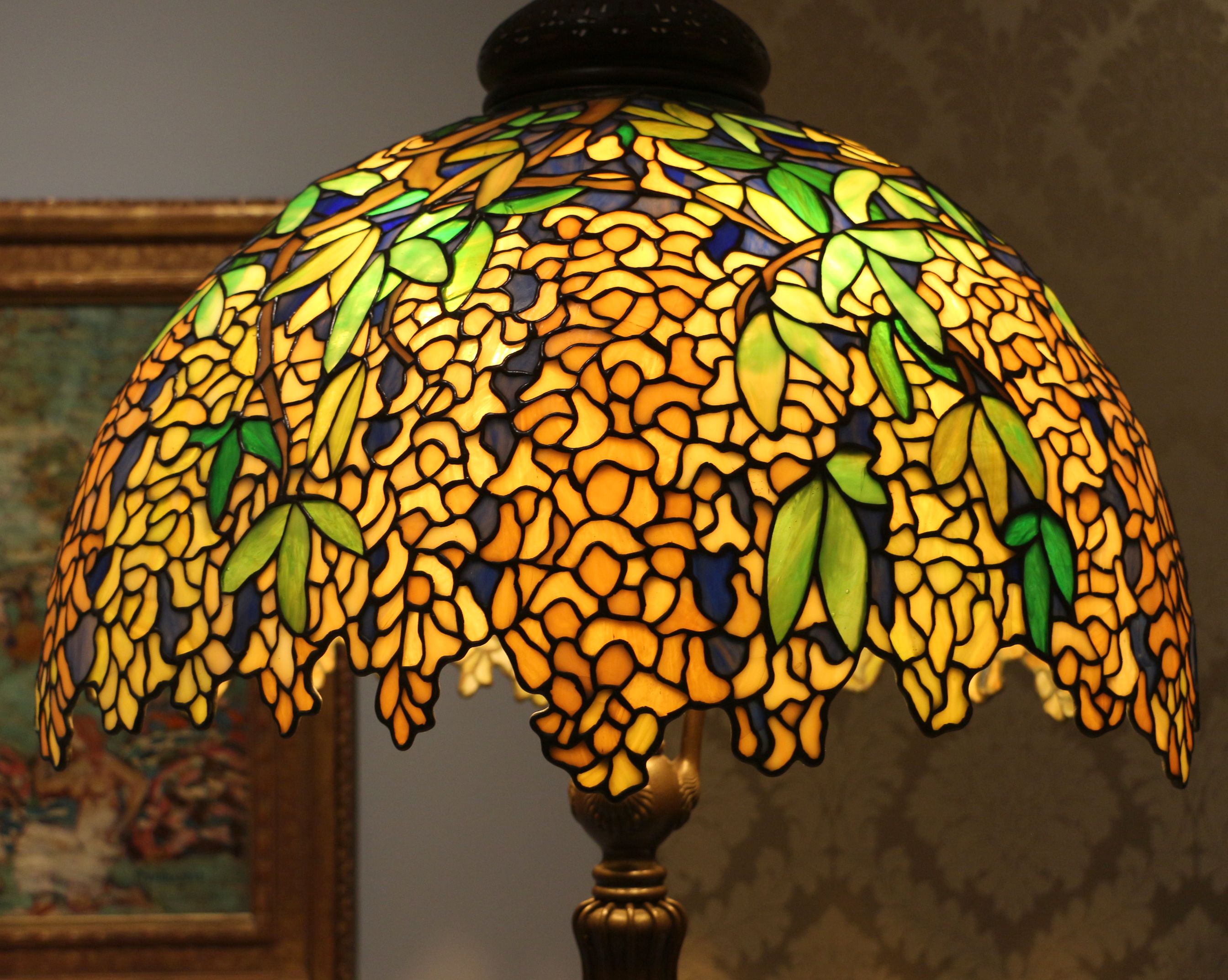 Glassware in the Milwaukee Art Museum